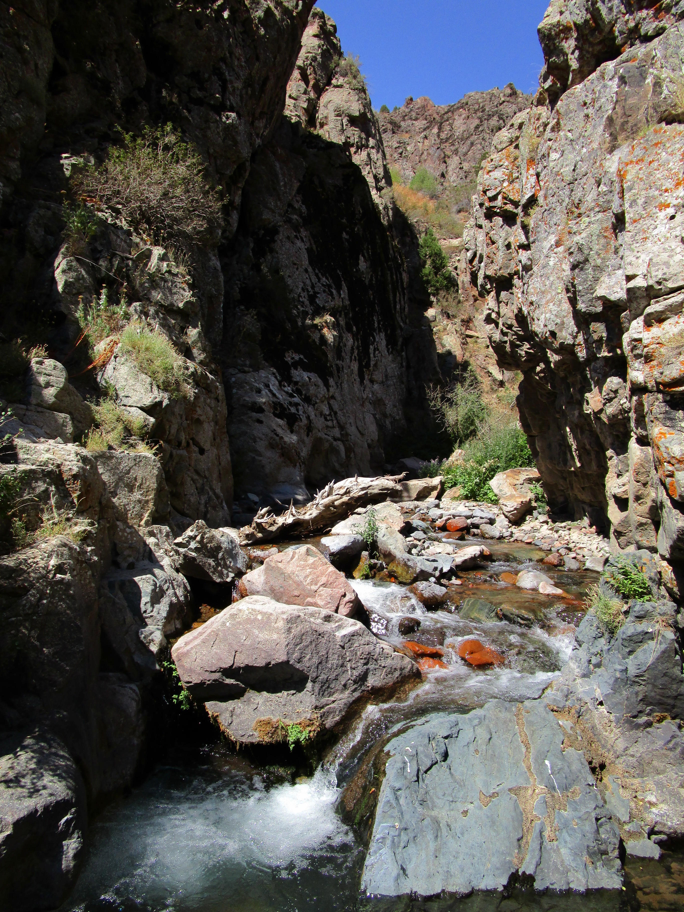 Nurekata river.